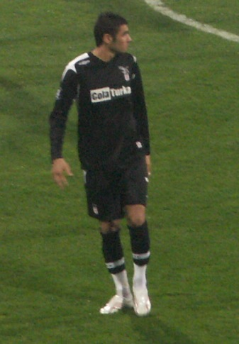 Burak with BJK jersey.